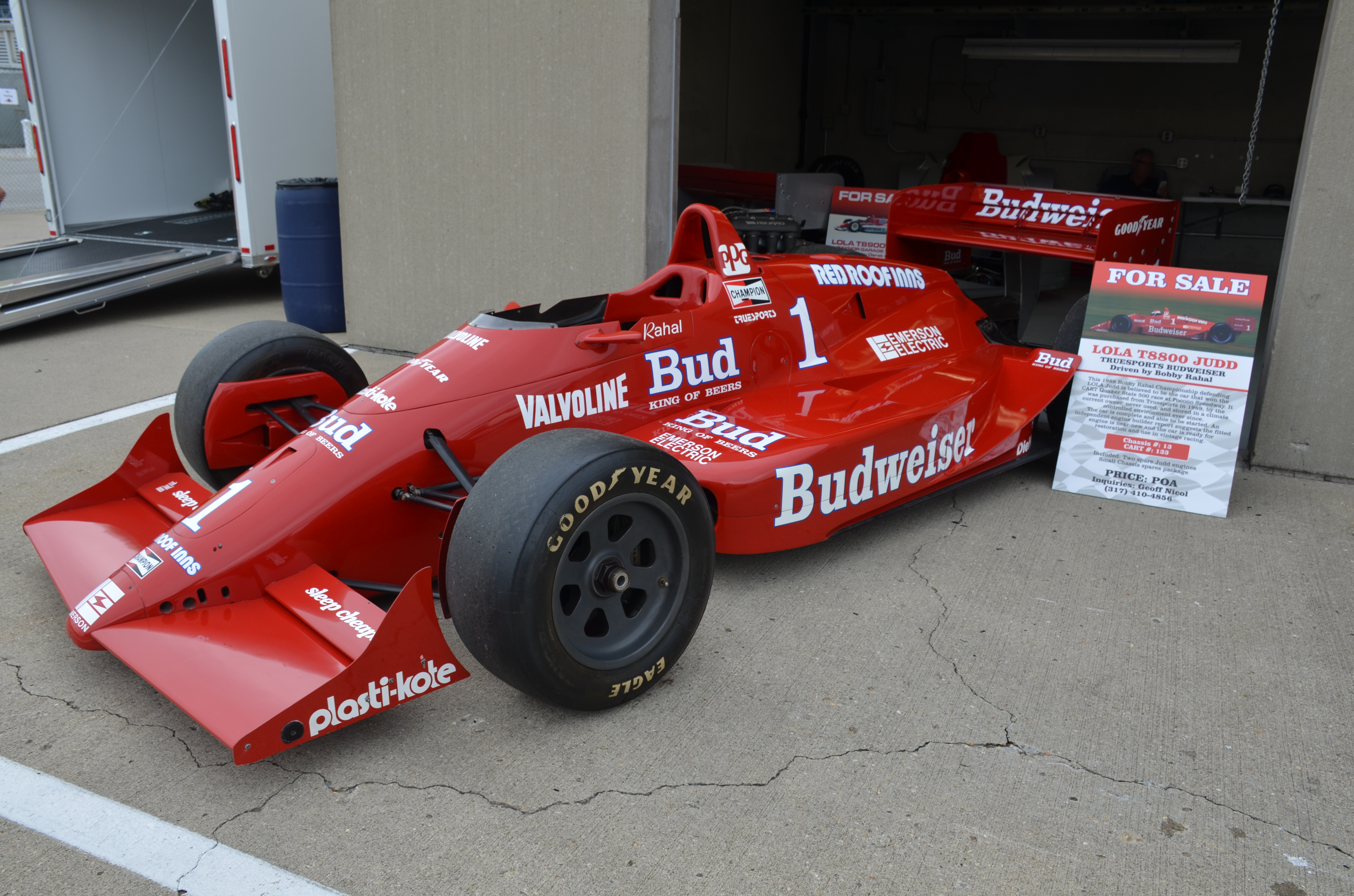 1988 Truesports Lola Judd Indy Car driven by Bobby Rahal. Understood to be the same car Rahal drove to win the 1988 Pocono 500.